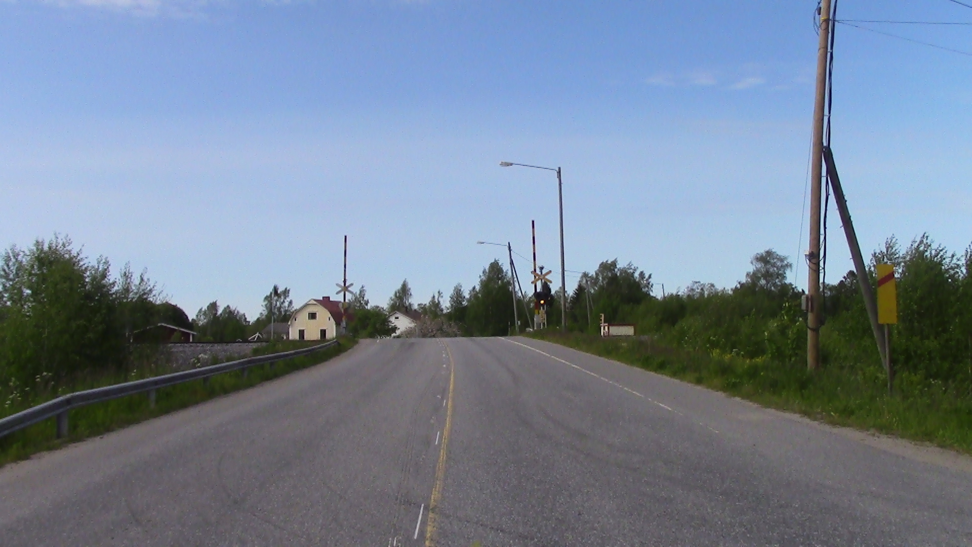 Regional road 6761 at Finby II level crossing in Närpes.